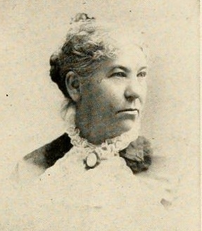 Portrait of Mary Fox Brown Johnson née Baldwin (1823-1899), California pioneer and mother of Sarah (Sallie) Fox Allen